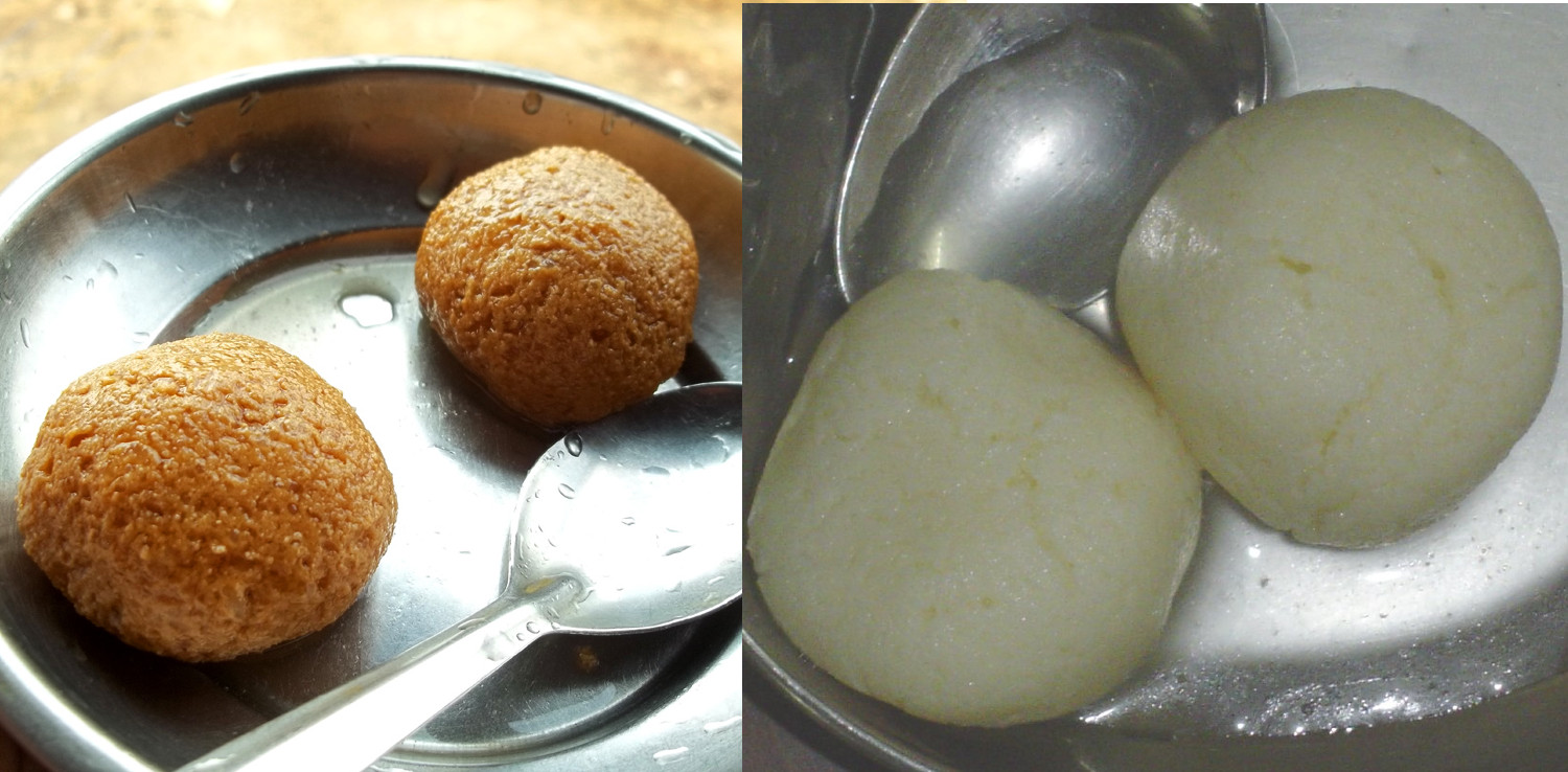 Rasgullas from the Indian states of Odisha and Bengal. The Odisha rasgullas (left), from the Pahala village, are creamish and softer. The Bengali rasgullas (right) are whitish and spongy.